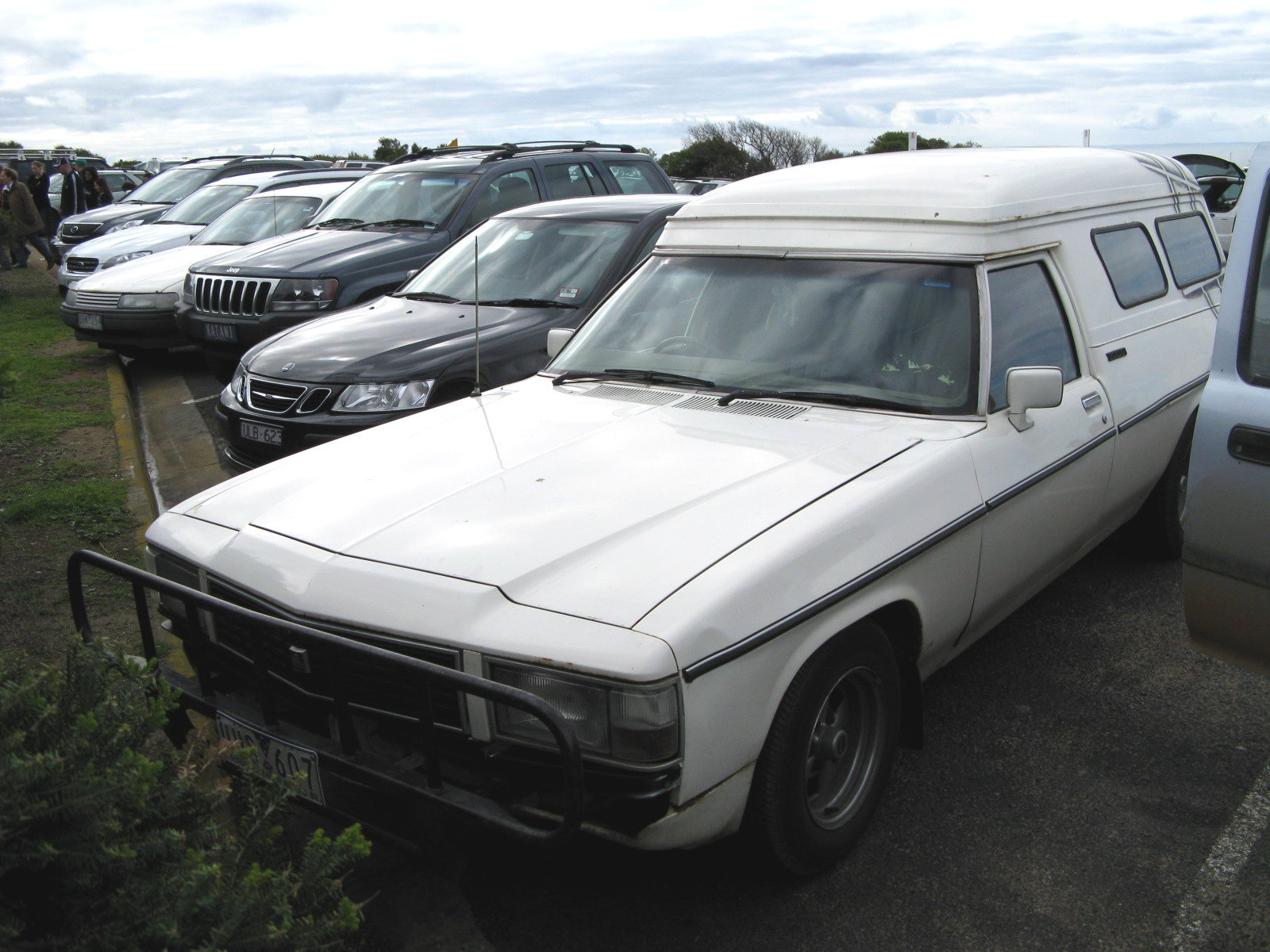 1980-1984 Holden WB panel van, photographed on the Great Ocean Road near Bells Beach, Victoria, Australia.